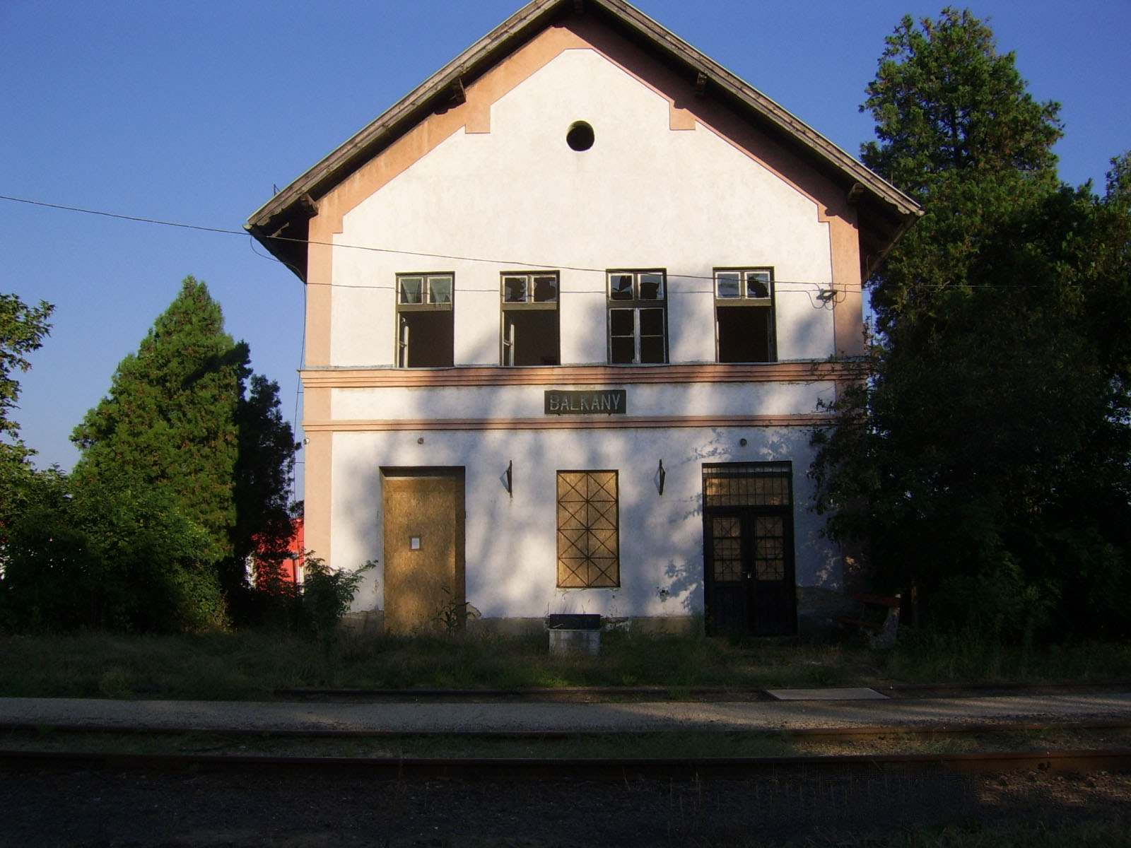 Railway station of Balkány, Hungary